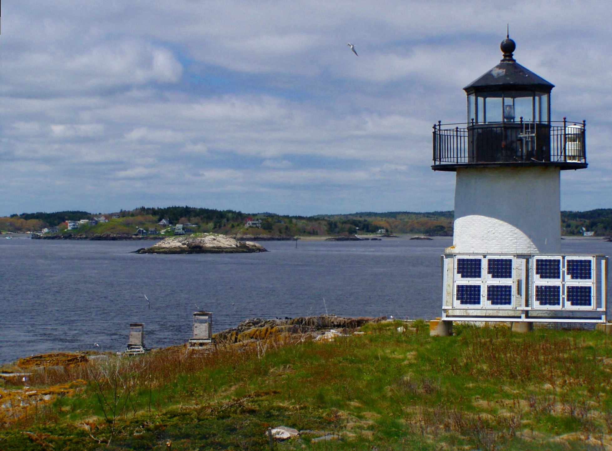 Pond Island Light at Maine Coastal Islands National Wildlife Refuge credit: USFWS